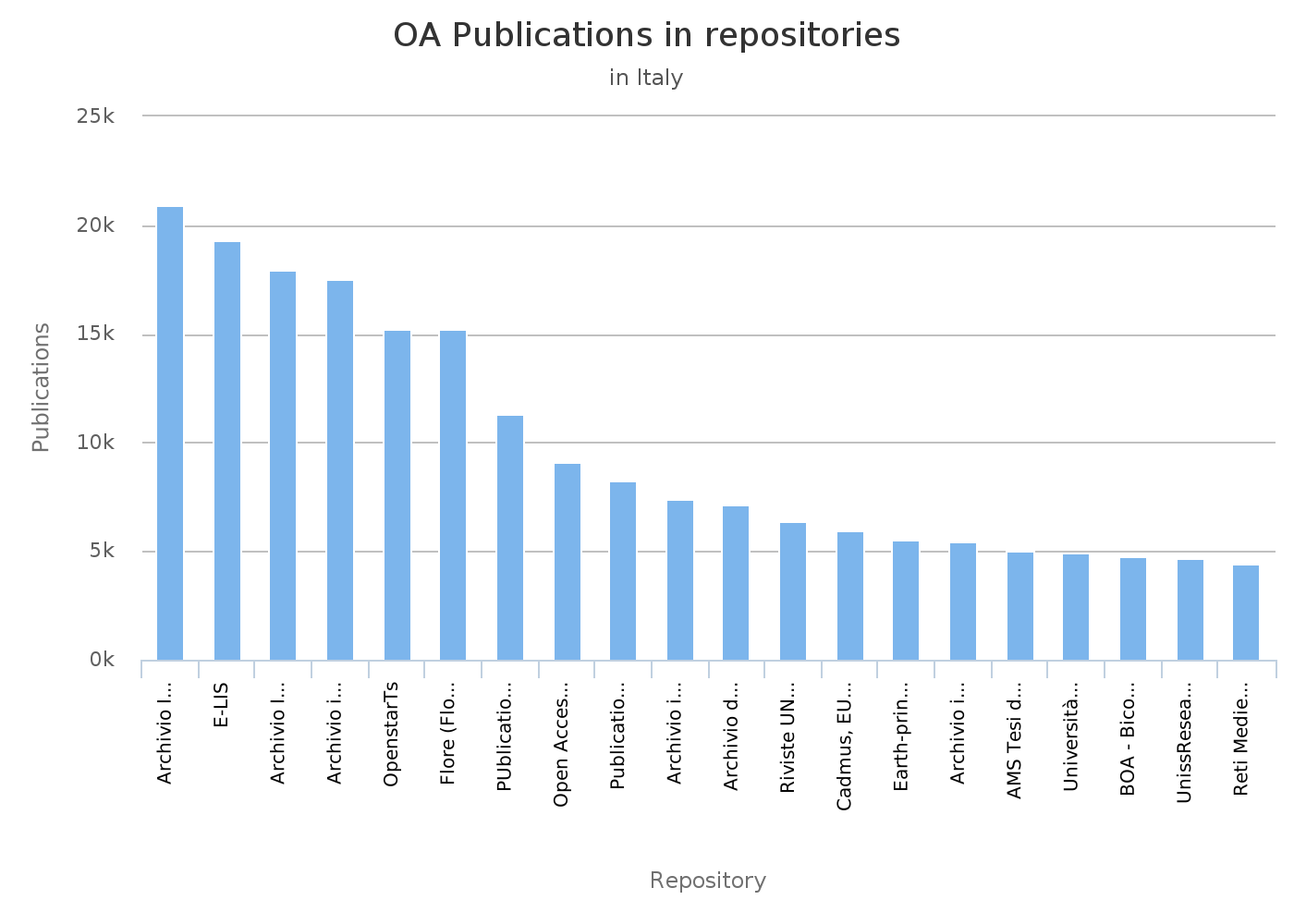 Bar graph describing open access to scholarly communication in Italy